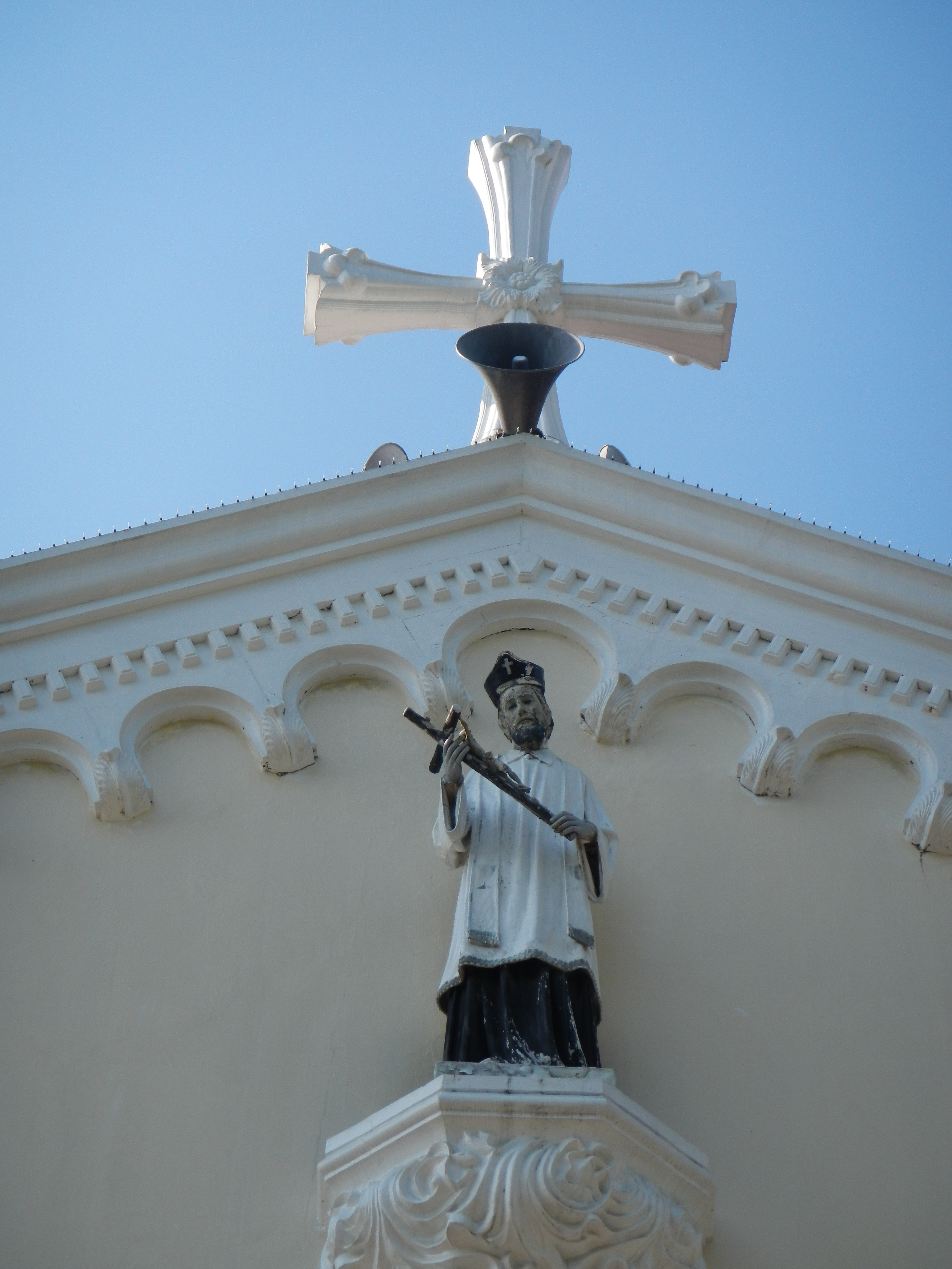 (F-1935) Saint John Nepomucene Parish Church of Anao - Fr. Mike Marquez, Parish Priest, [1] [2] Roman Catholic Diocese of Tarlac[3] [4] Saint John Nepomucene Parish (F-1935) Poblacion St., Anao 2310 Tarlac, Philippines Titular: St. John Nepomucene, May 16 Parish Priest: Father Ricky Barayoga Vicariate of St. Rose of Lima[5]Anao, Tarlac[6]